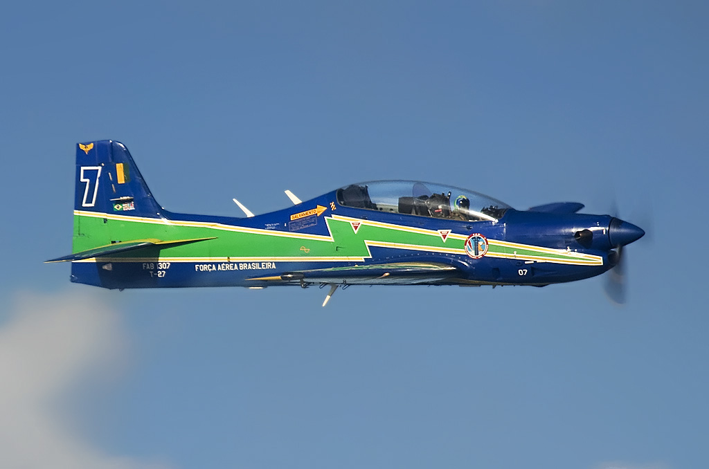 A Tucano from the Brazilian Esquadrilha da Fumaça squadron in flight.